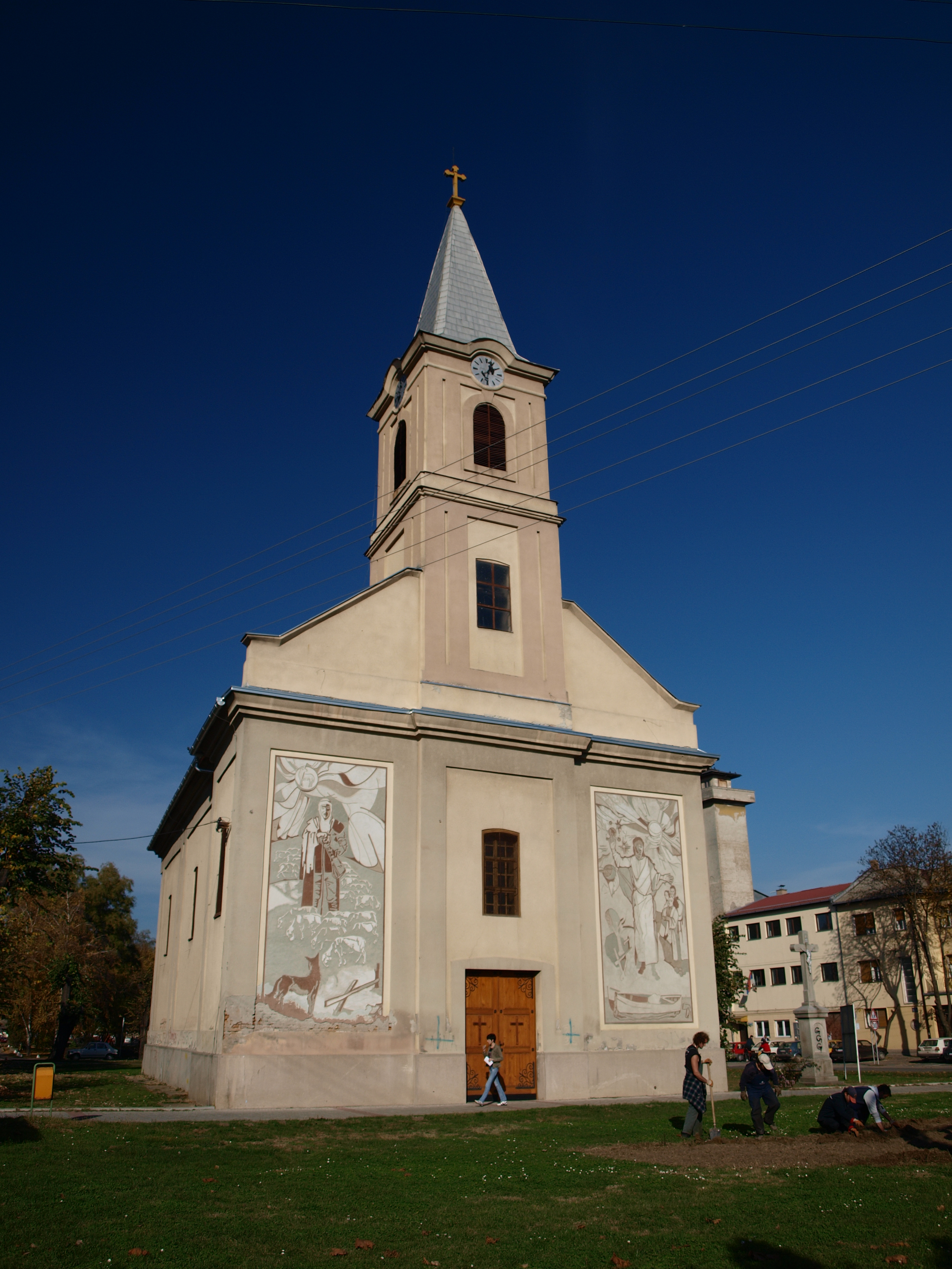 Church in Bačka Palanka, Vojvodina, Serbia.